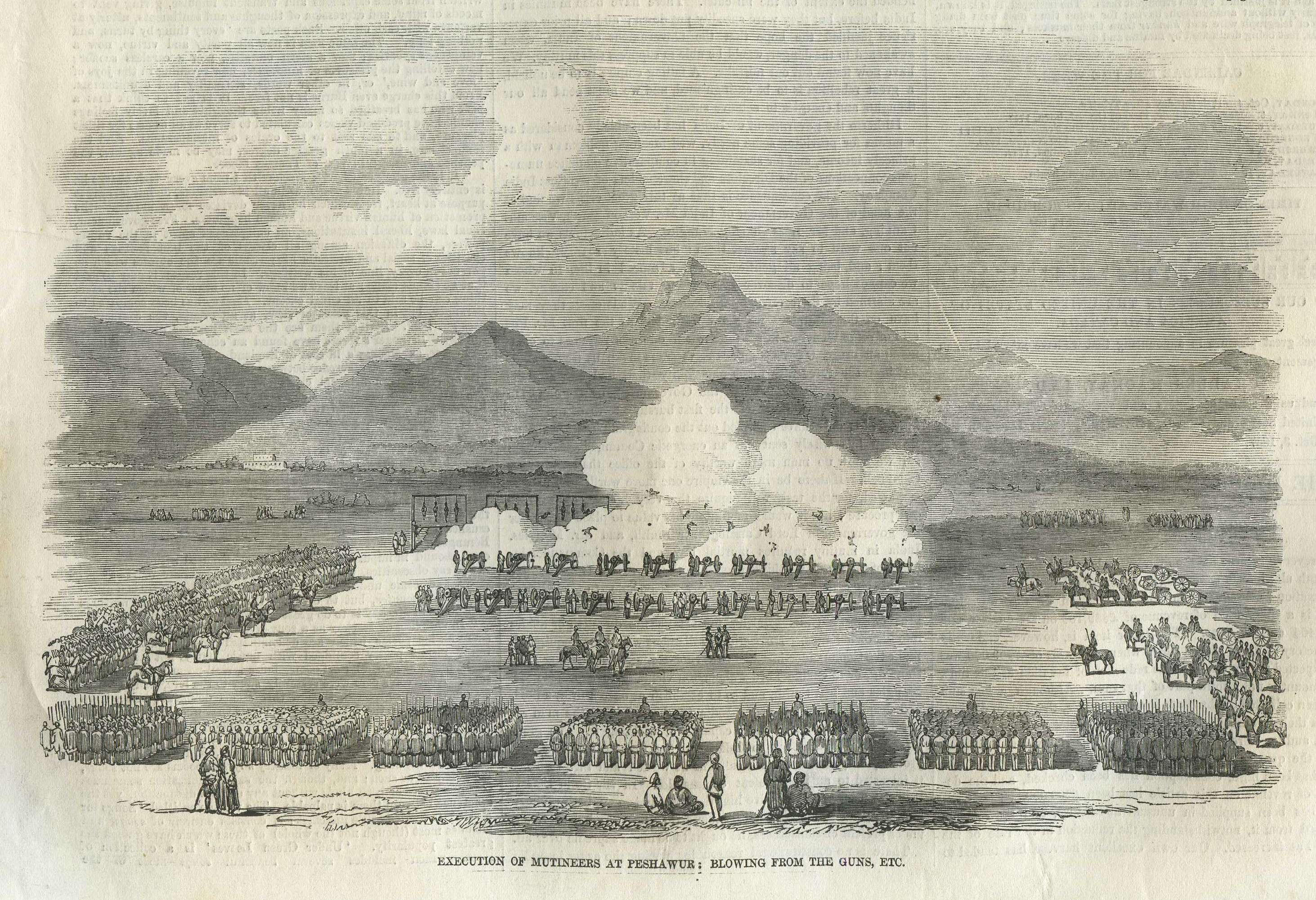 "Execution of mutineers at Peshawur: blowing from the guns, etc.," Illustrated London News, 1857; click on the image for a very large scan